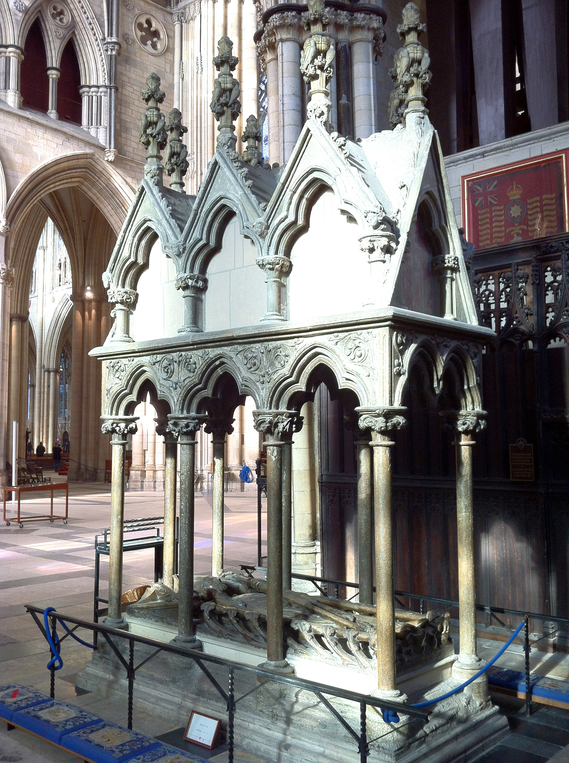 Memorial to Archbishop Walter de Gray in the south transept of York Minster